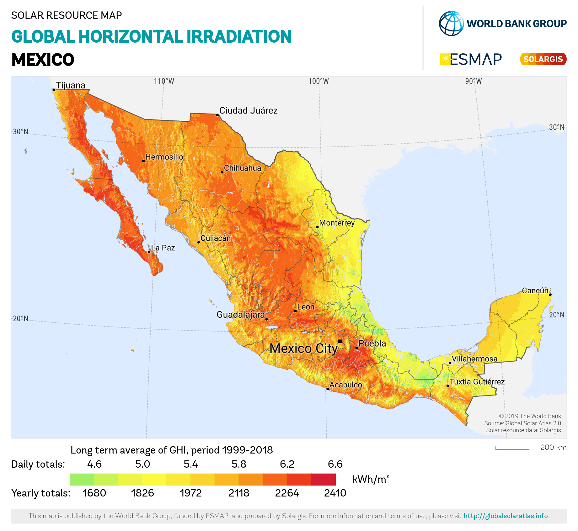 Global Horizontal Irradiation of Mexico